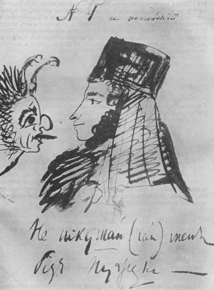 Alexander Pushkin's self-portrait as a monk with a demon tempting him. Ushakovs' album, 1829